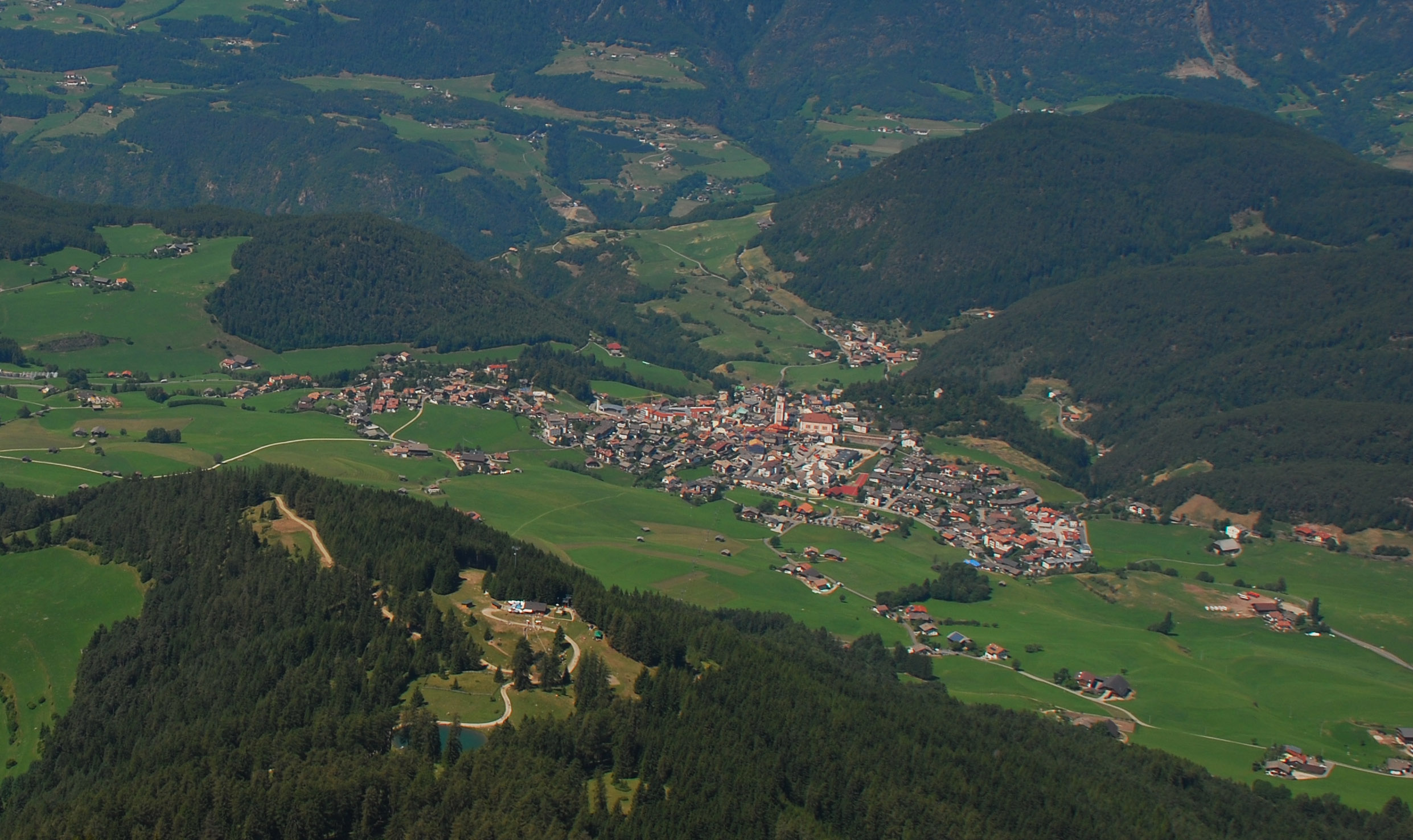 Castelrotto - Kastelruth as seen from Bullaccia - Puflatsch